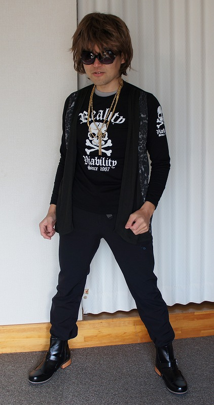 Typical dressing of Gyaruo